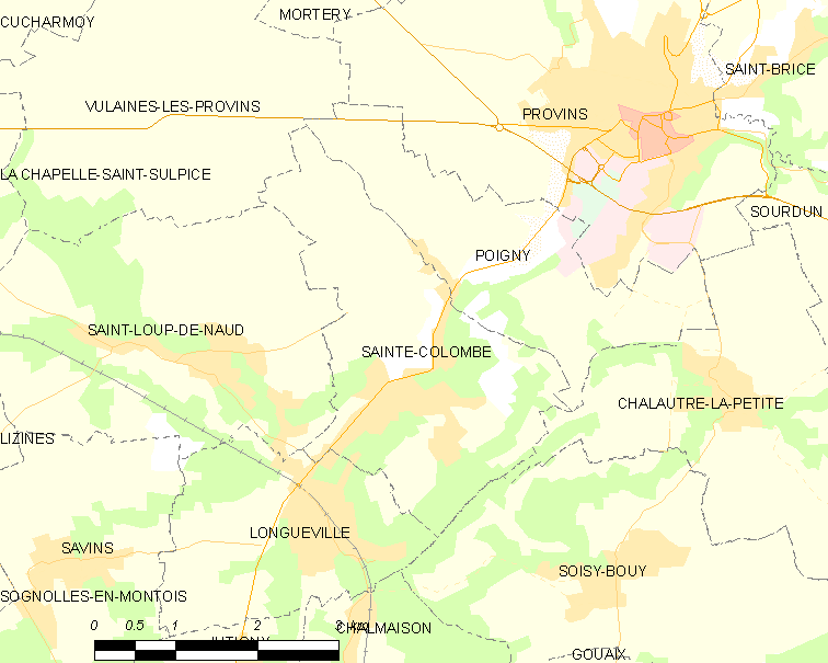 Map of French municipality Sainte-Colombe